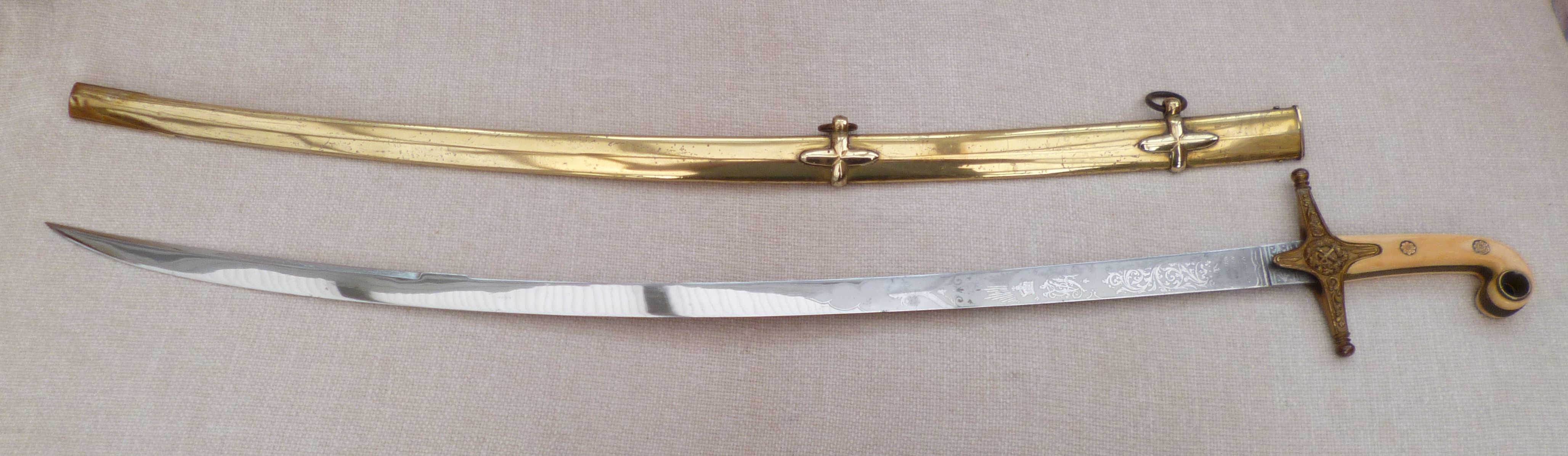 British Pattern 1831 sabre for the rank of major general and above. A sabre of mameluke type with ivory grips and brass scabbard. This particular sword is mid-Victorian and was retailed by J.B. Johnstone of London and Dublin, who were tailors and military outfitters.